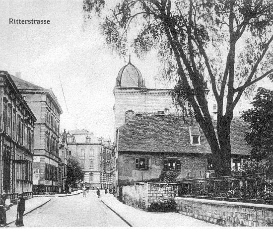 Synagogue of Zweibrücken in Germany seen from the Ritterstrasse. Built in 1879 and destroyed by the Nazis during Cristal Night in 1938.